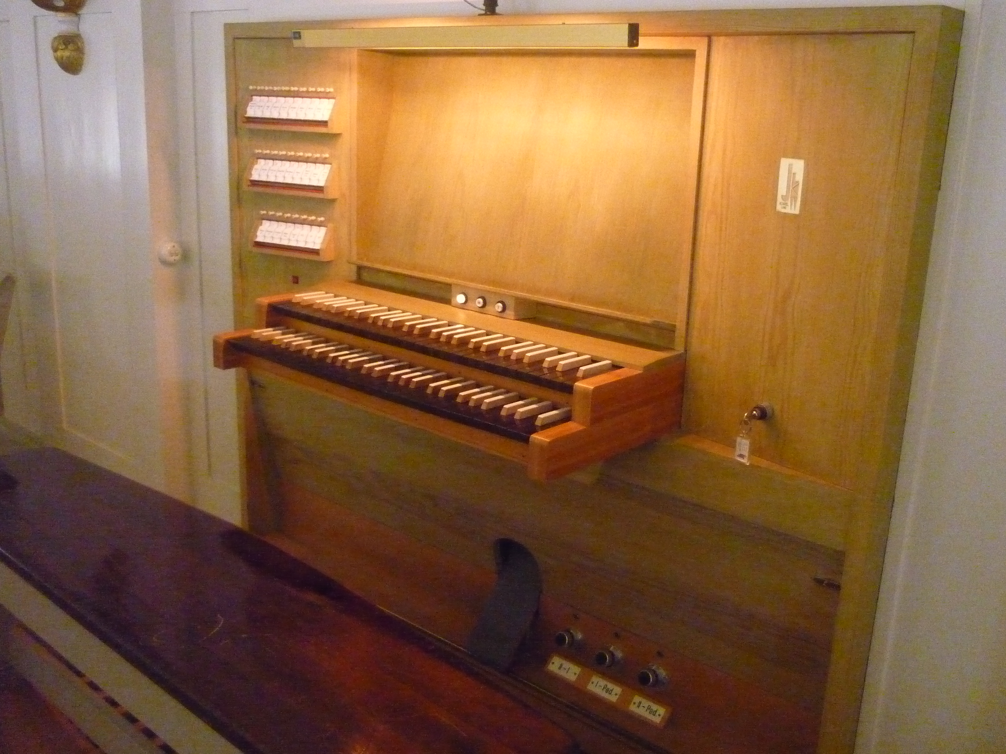 The old pipe organ in Torslunda kyrka, Sweden